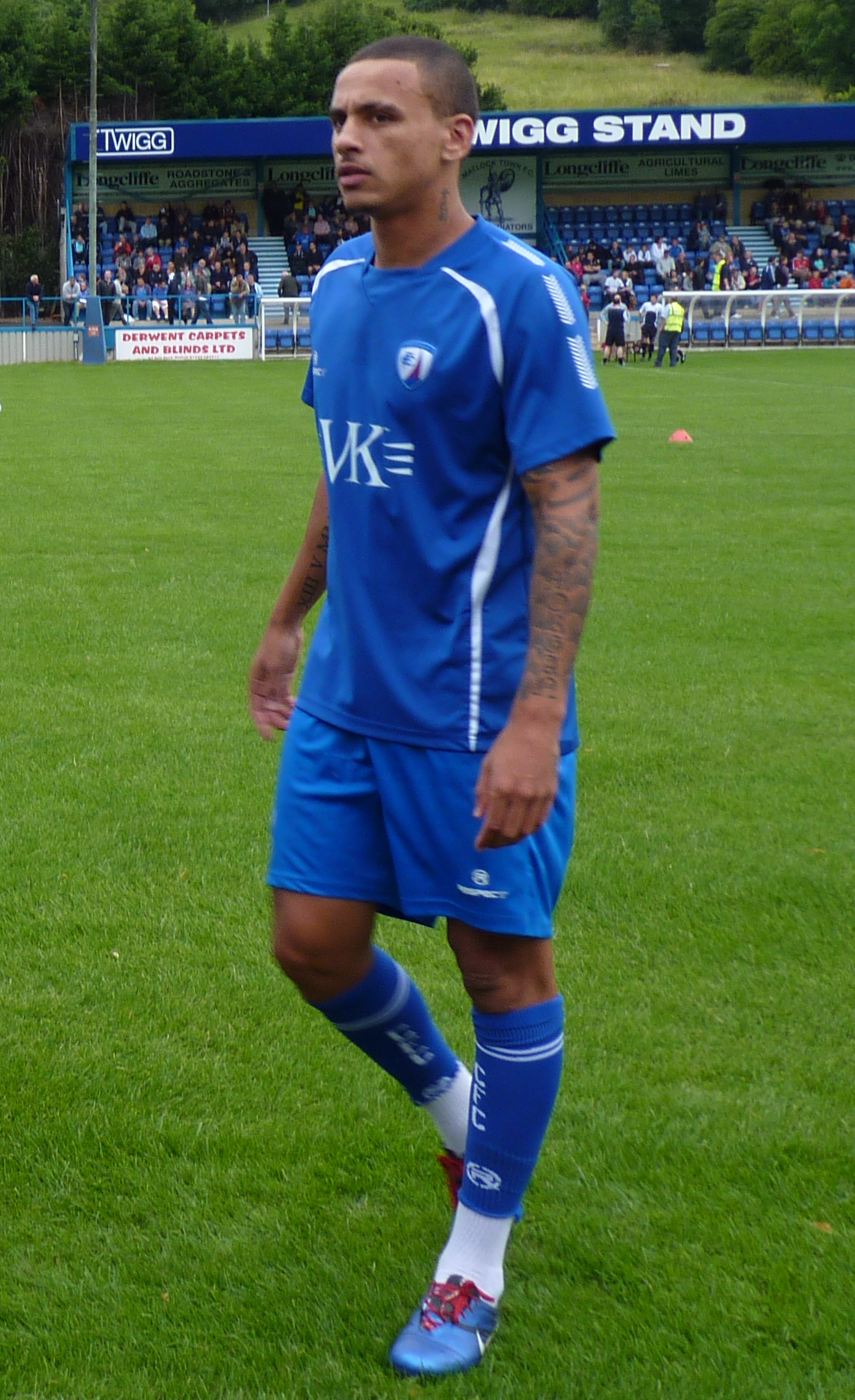 Dean Morgan, Matlock vs Chesterfield 19-07-11 001